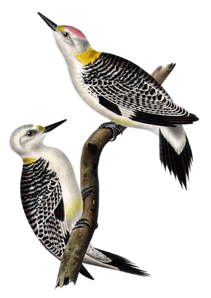 Golden-fronted Woodpecker , Melanerpes aurifrons, hand-colored lithograph, female (left), male (right)